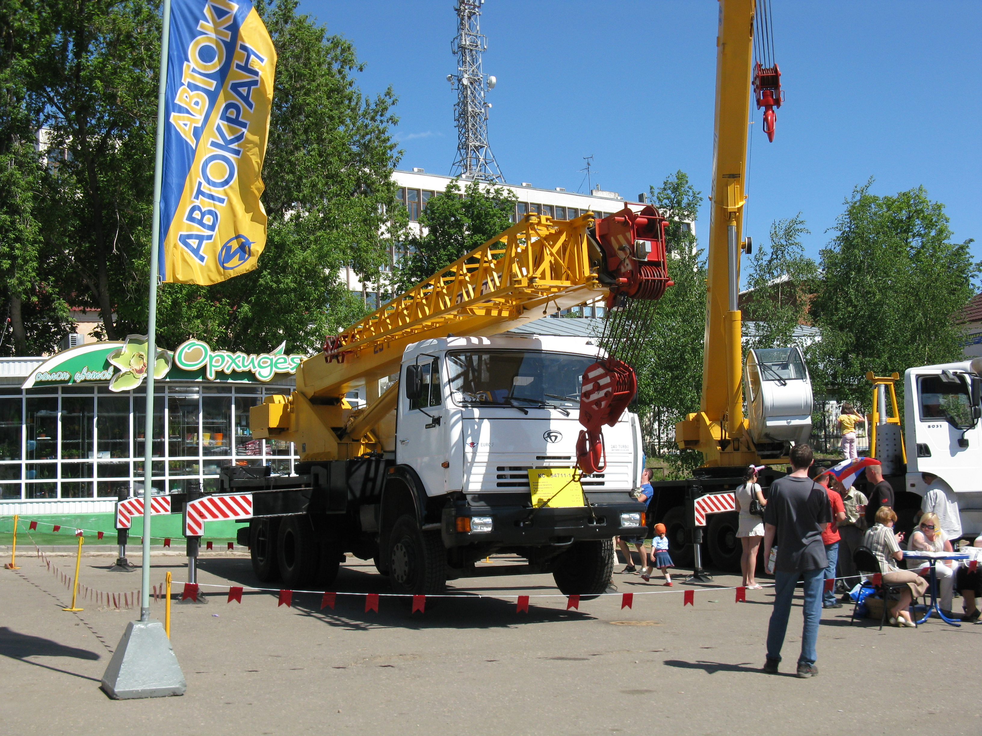 Crane truck KC-54711-1 by KC-Ivanovec build on a Kamaz truck.